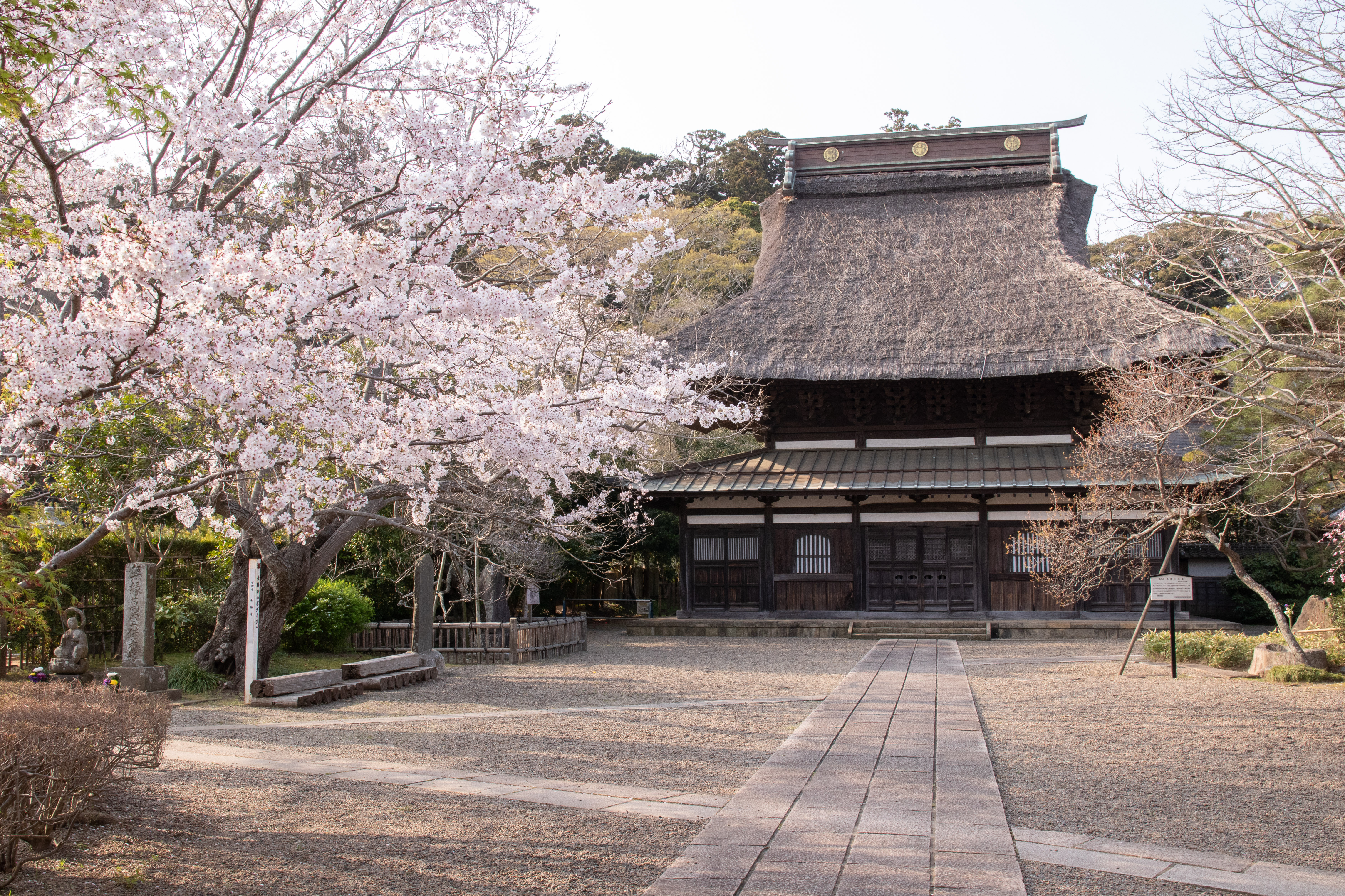 Kaiunzan Choshoji Temple, Itako City, Ibaraki, Japan Canon EOS 80D + Sigma 17-70mm F2.8-4 DC Macro OS HSM